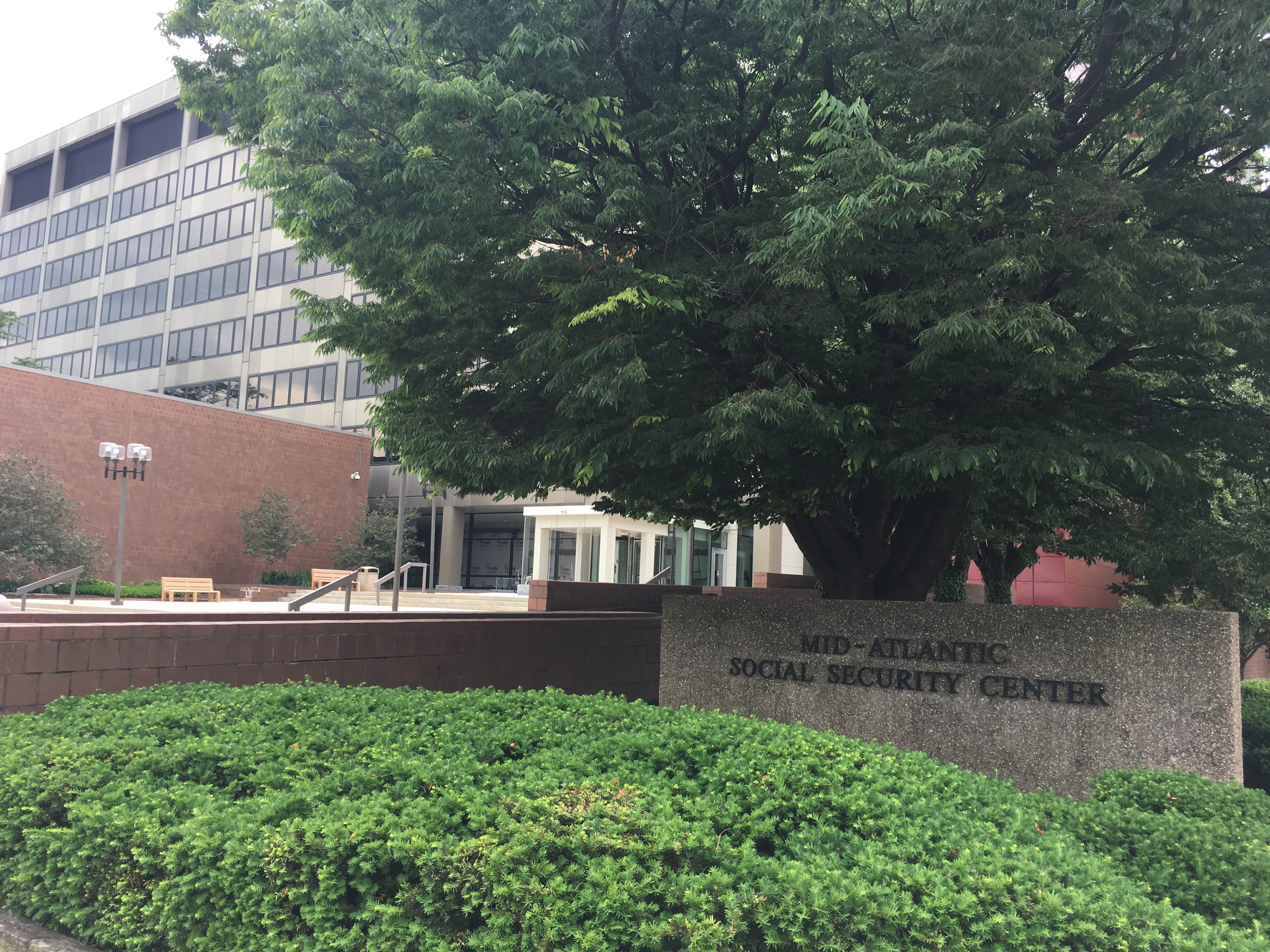 The Mid-Atlantic Social Security Center, which houses the Mid-Atlantic Program Service Center of the Social Security Administration. The building is located at 300 Spring Garden Street in Philadelphia, Pennsylvania. This is the view of the northwest corner of the building, at the intersection of 4th Street and Spring Garden Street.